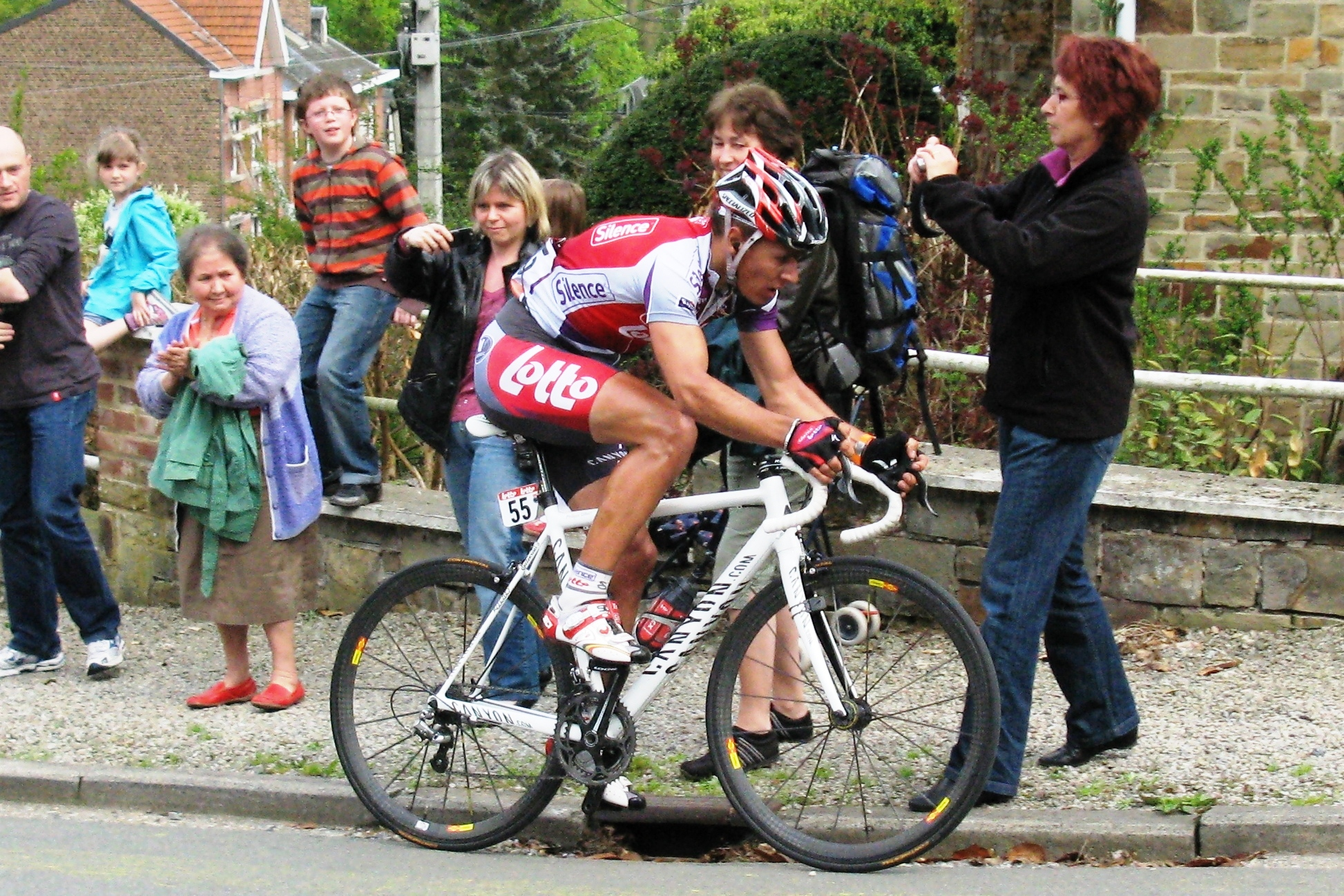 Philippe Gilbert in the Côte de la Roche aux Faucons Liège-Bastogne-Liège 2009